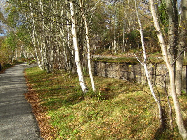 Siding at Cambus O'May station Cambus O'May station on the Deeside Railway was opened in 1876. The picturesque setting of Cambus O'May made it one of the most attractive railway stations not only on the Deeside line but, some said, in the whole country. The tranquil beauty of the site was highly regarded by the directors of the Great North of Scotland Railway Company who used to hold weekend board meetings in a saloon shunted into the siding amidst the silver birches. (Source: Notice at the nearby car park.) The remains of this short platform perhaps mark the location of that siding! It is a just to the east of the station platform.